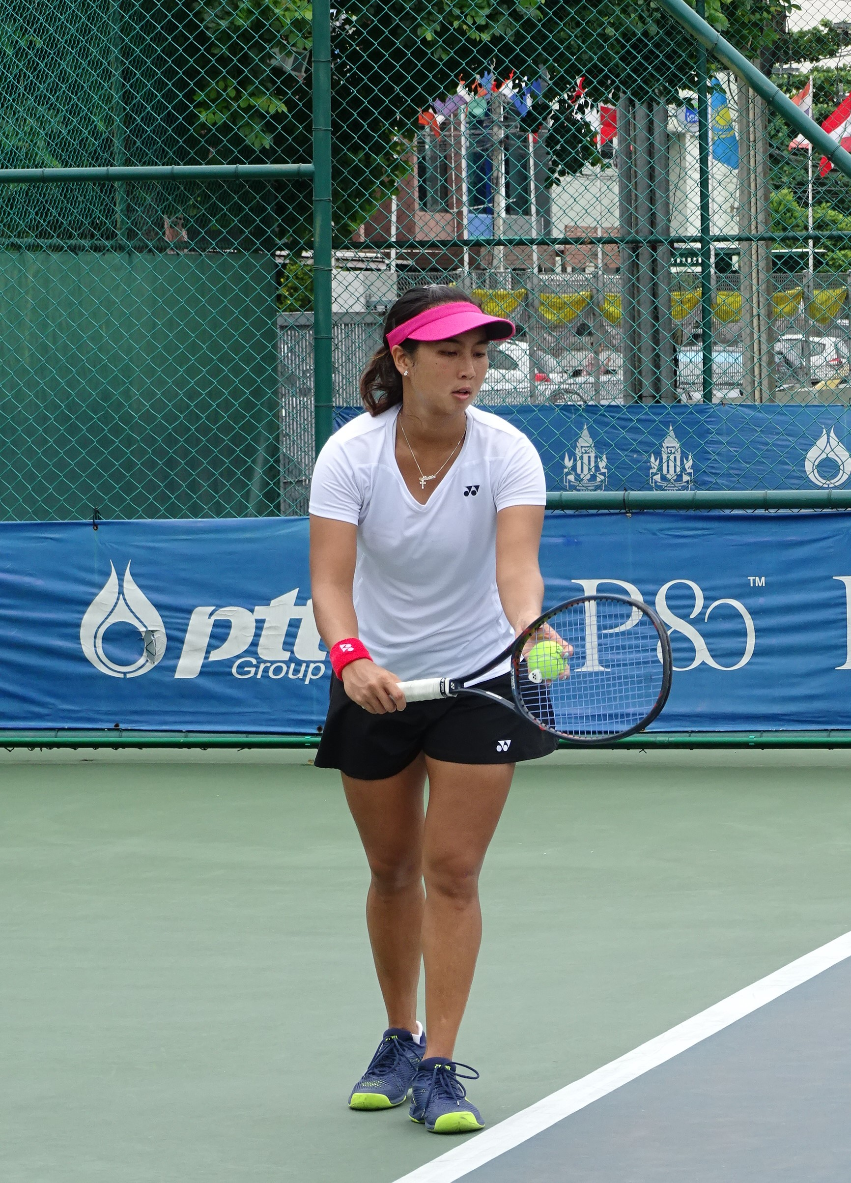 Aldila Sutjiadi at the ITF Women's Circuit in Nonthaburi 2019